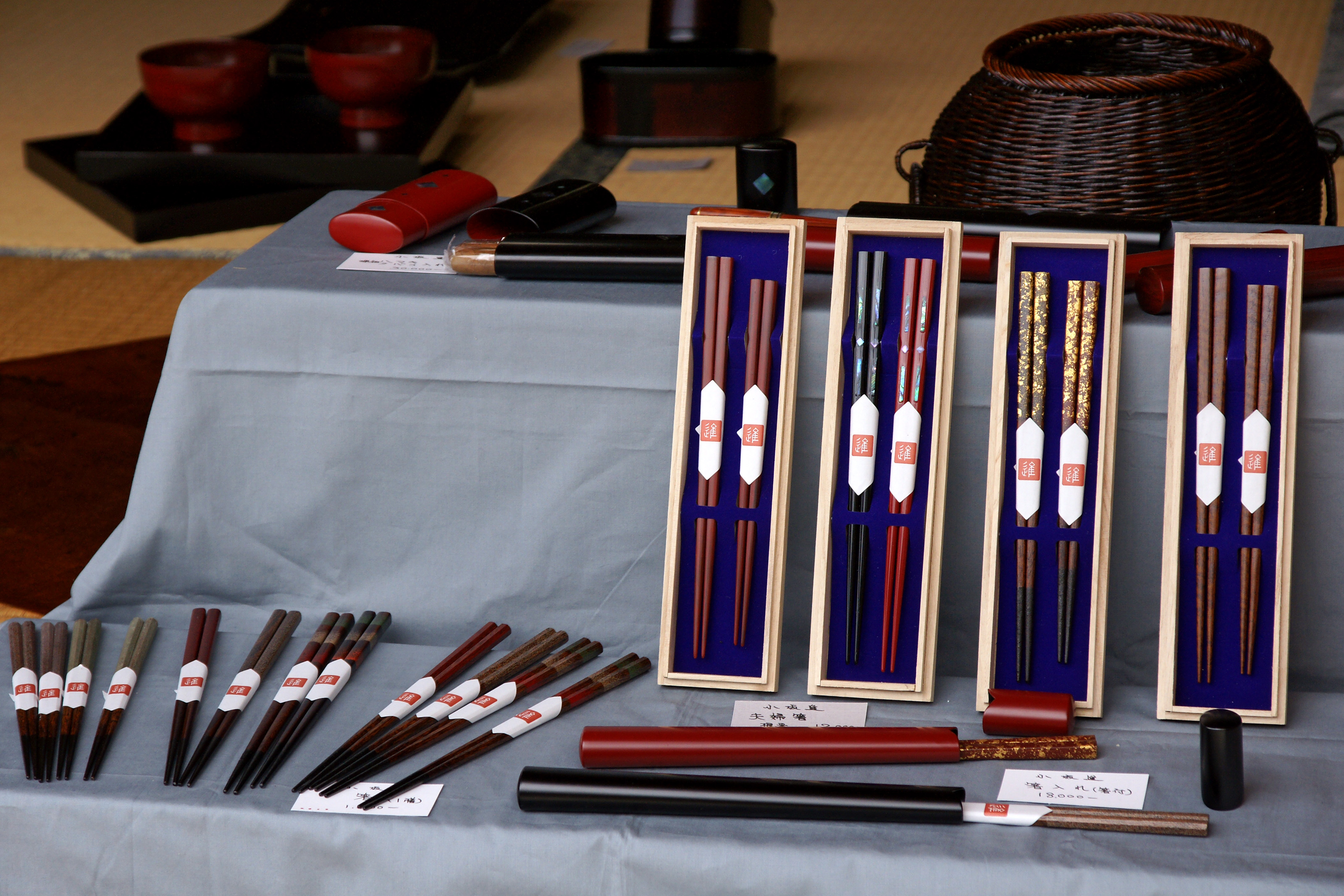 Kiso-Hirasawa, Shiojiri, Nagano prefecture, Japan